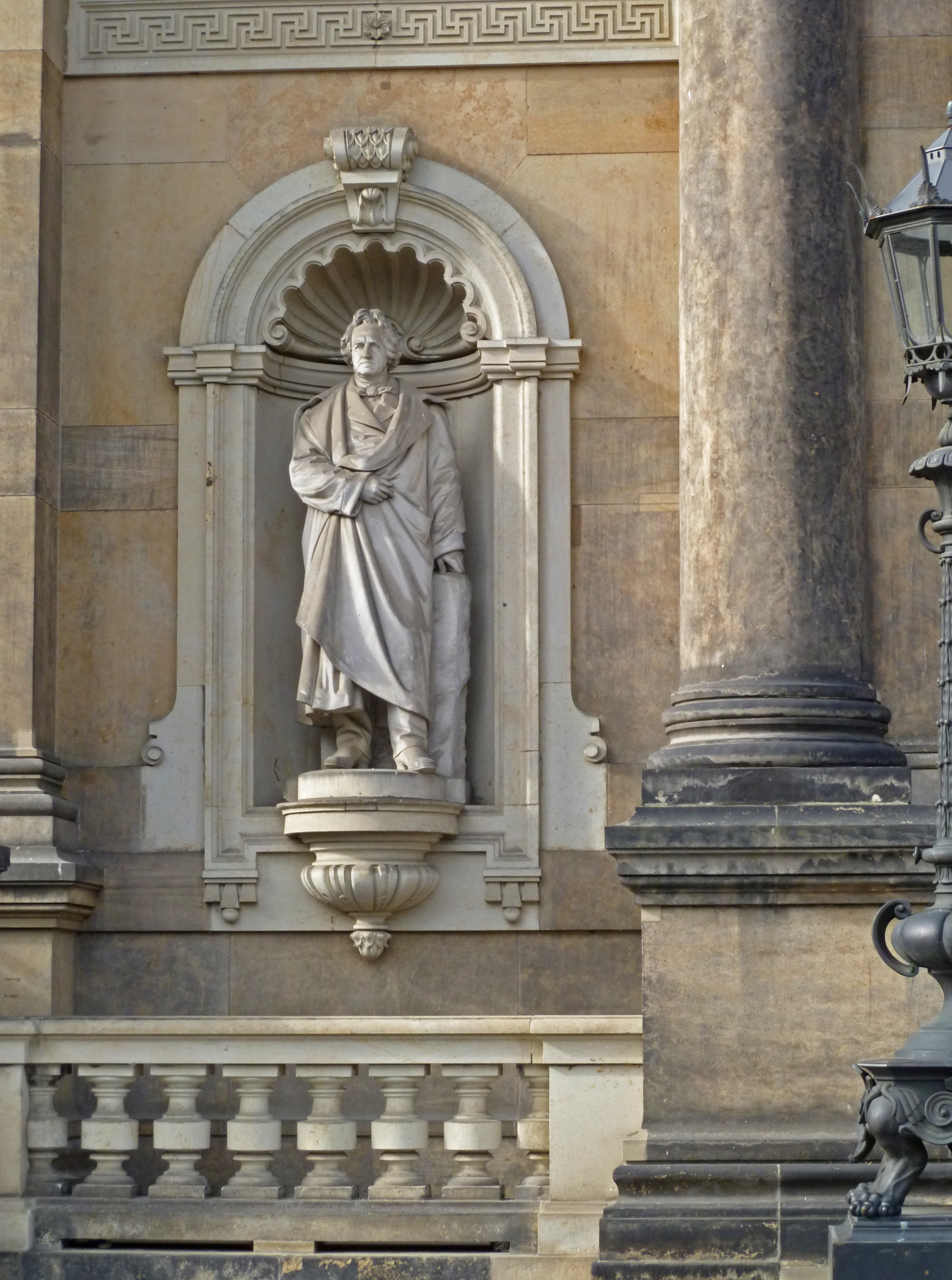 Statue (1893) of Christian Daniel Rauch by Hermann Hultzsch on the wall of Dresden Academy of Fine Arts, Dresden, Germany